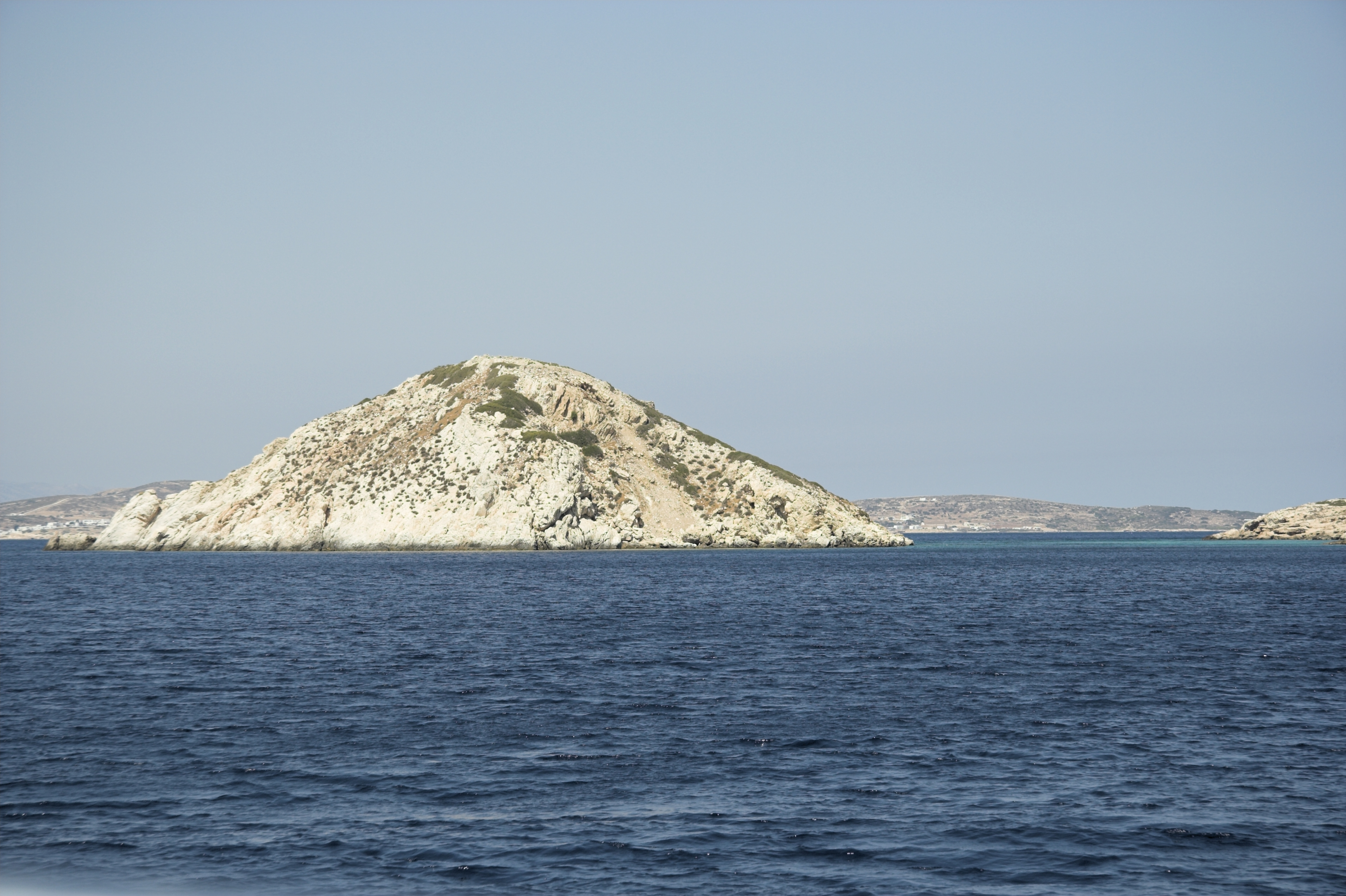 Daktylion. (In the background is the island of Pano Koufonisi, right is Keros.) At the top Daktylia was starokykladská shrine and then turn the Byzantine Orthodox chapel.